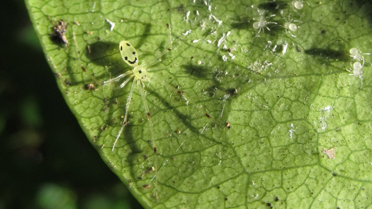 Image of a Theridion grallator